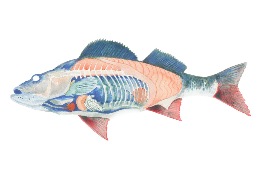 Author (Alberto Rava) is living in Italy and specializes in fish drawings for hobby. His drawings can be found on his website